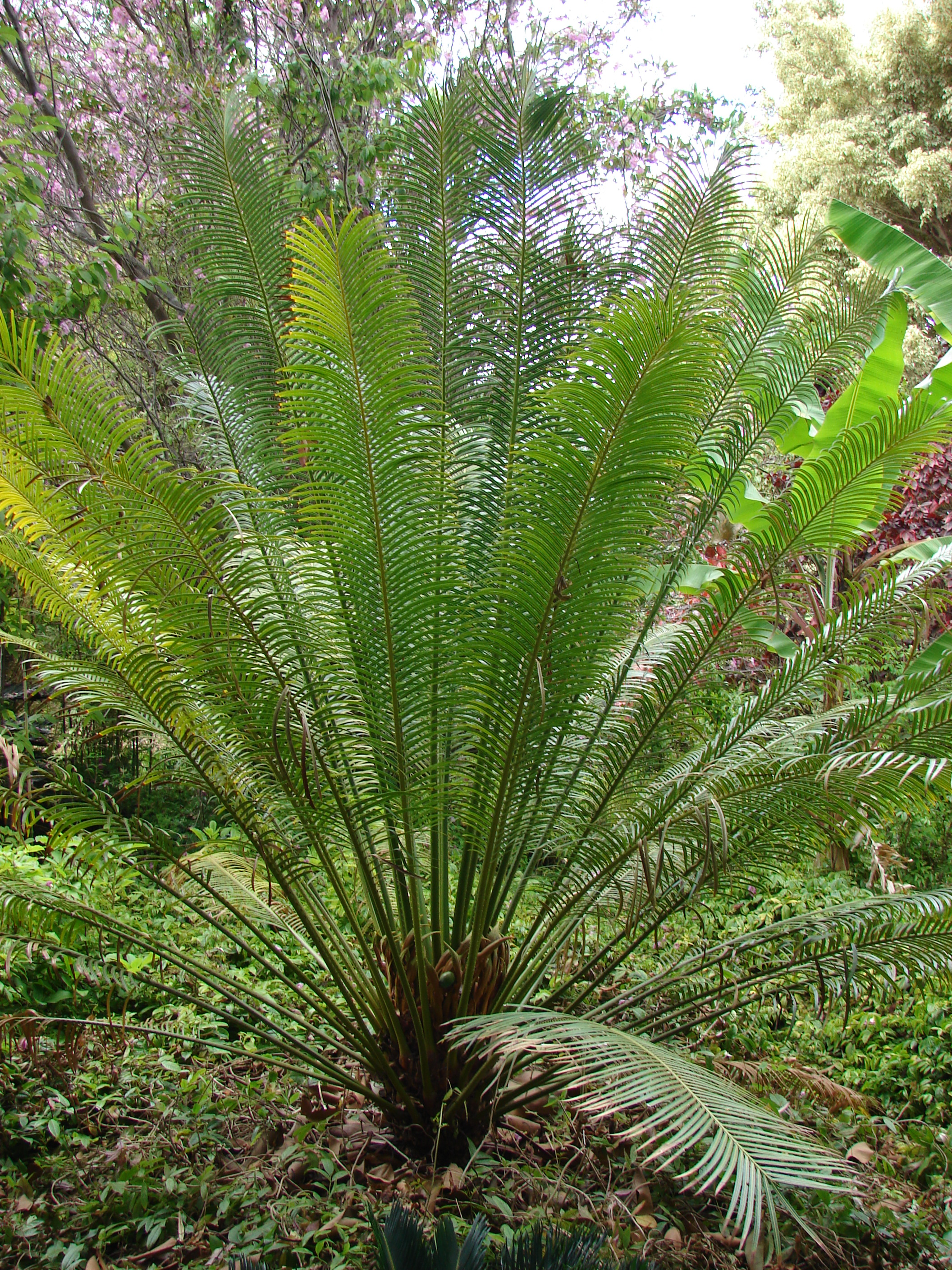 Cycas circinalis (habit). Location: Maui, Enchanting Gardens of Kula